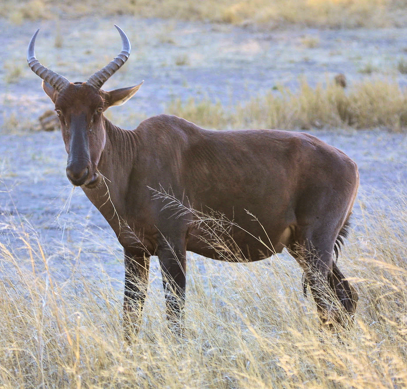 Tsessebe, Okavango, Botswana